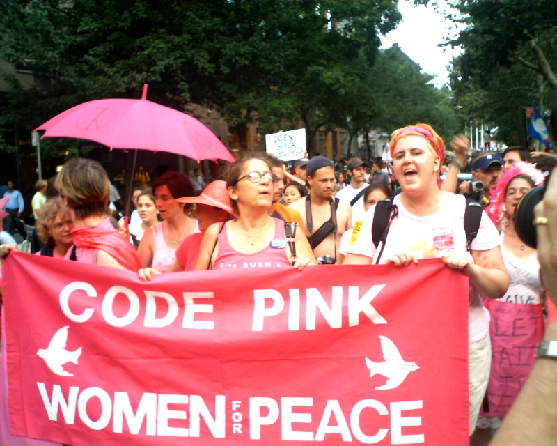 Pink Power: Women march for peace